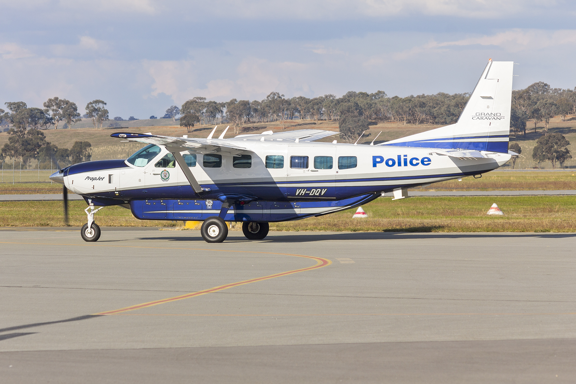 New South Wales Police Force (VH-DQV) Cessna Grand Caravan 208B EX taxiing at Wagga Wagga Airport.